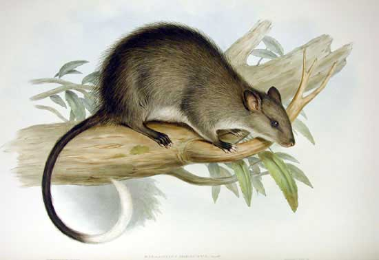 Mesembriomys gouldii From "Mammals of Australia", Vol. III Plate 4 Part of the 3 Volumes by John Gould, F.R.S.